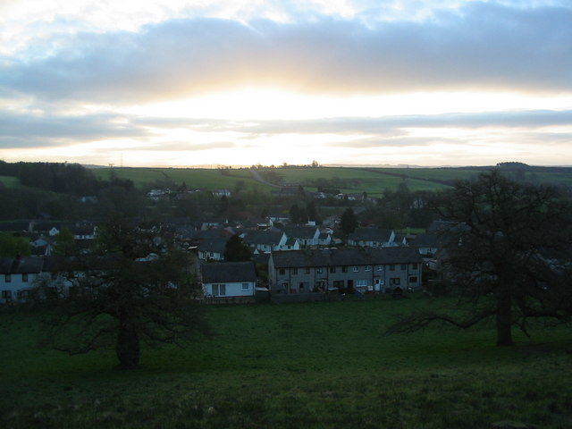 Canonbie